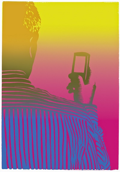 Print by Ola Åstrand